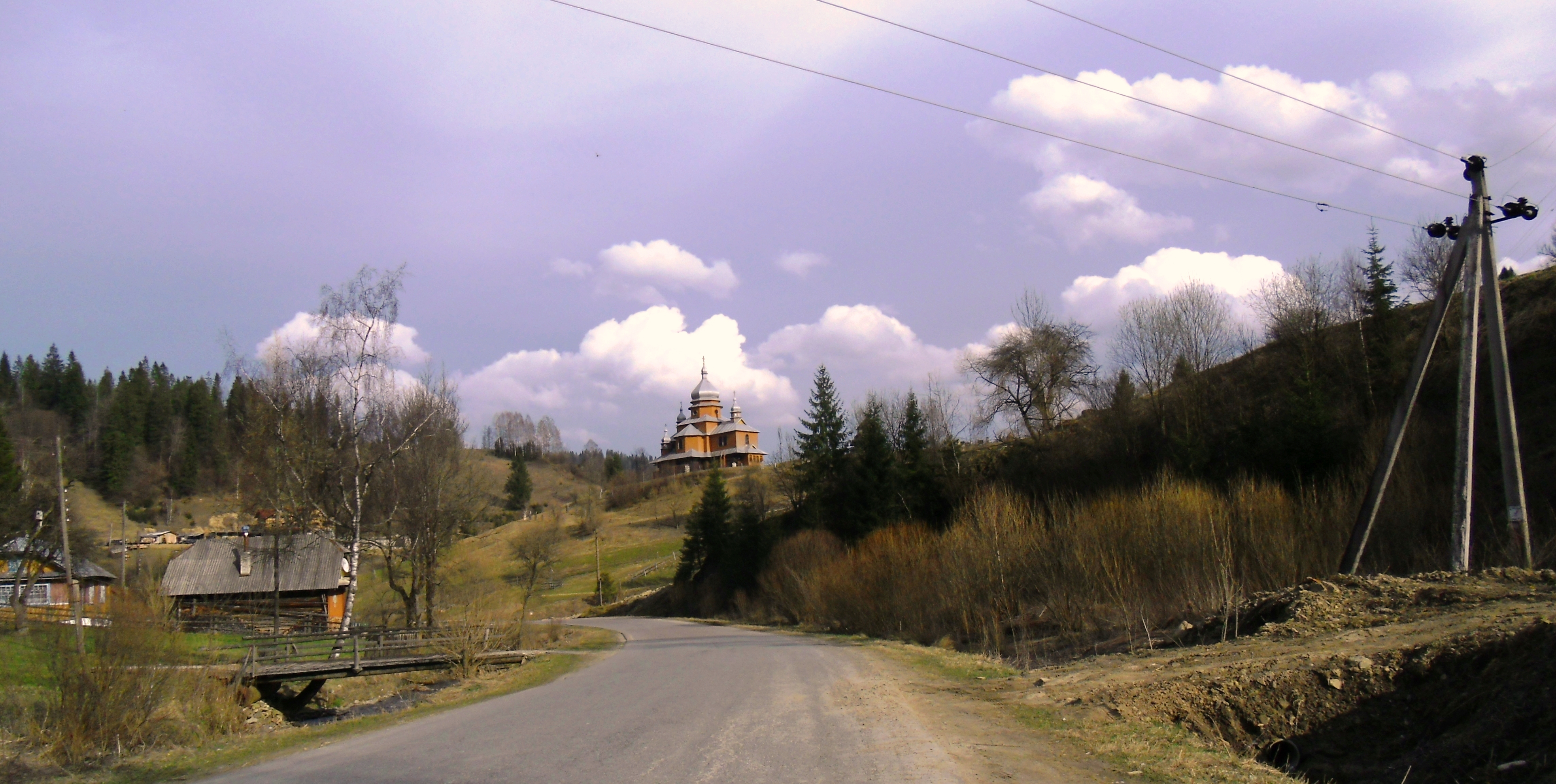 Village Oryavchyk (Skole Raion) is located in the Ukrainian Carpathians within the limits the Eastern Beskids.